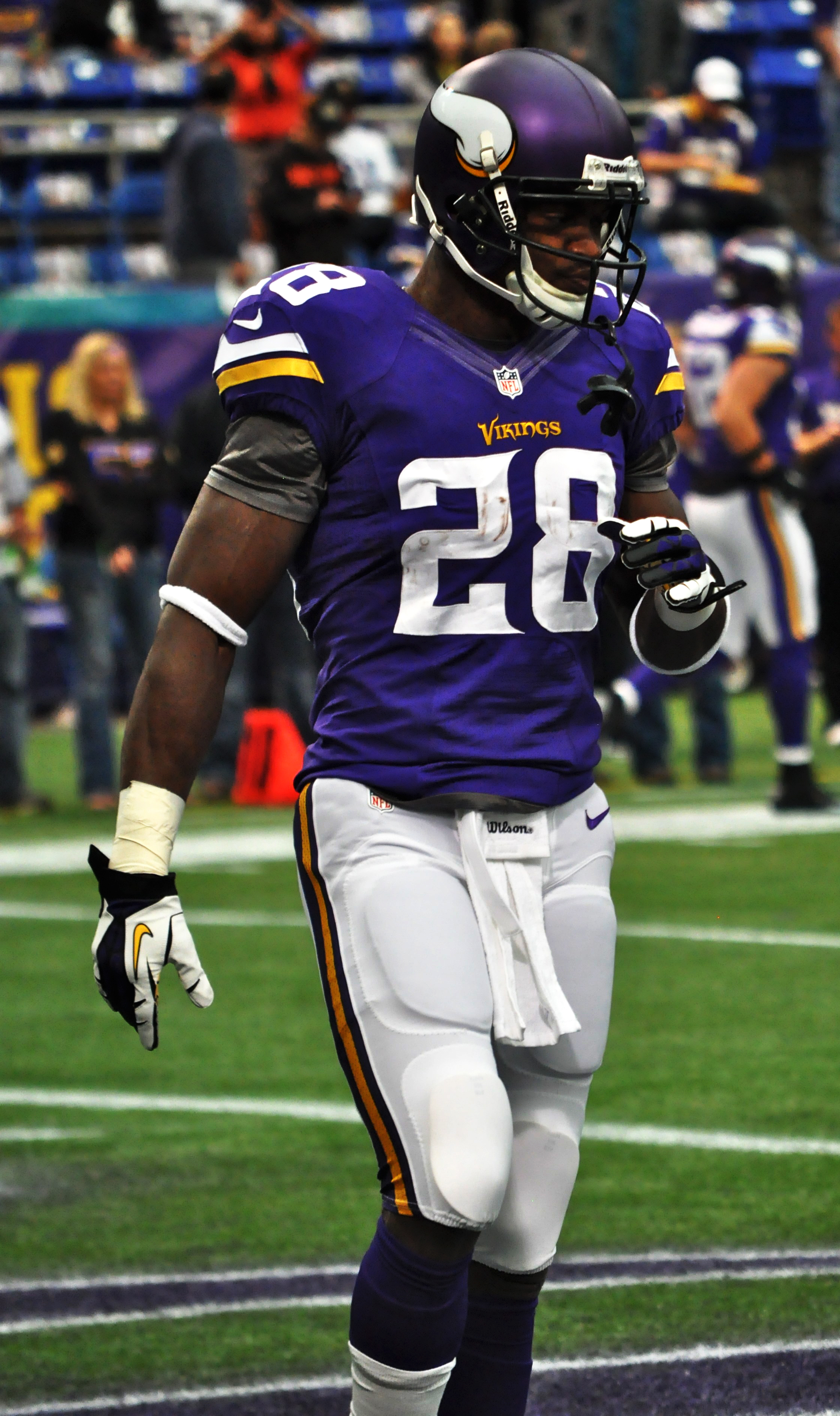 Minnesota Vikings running back Adrian Peterson (week 3 vs. Cleveland)